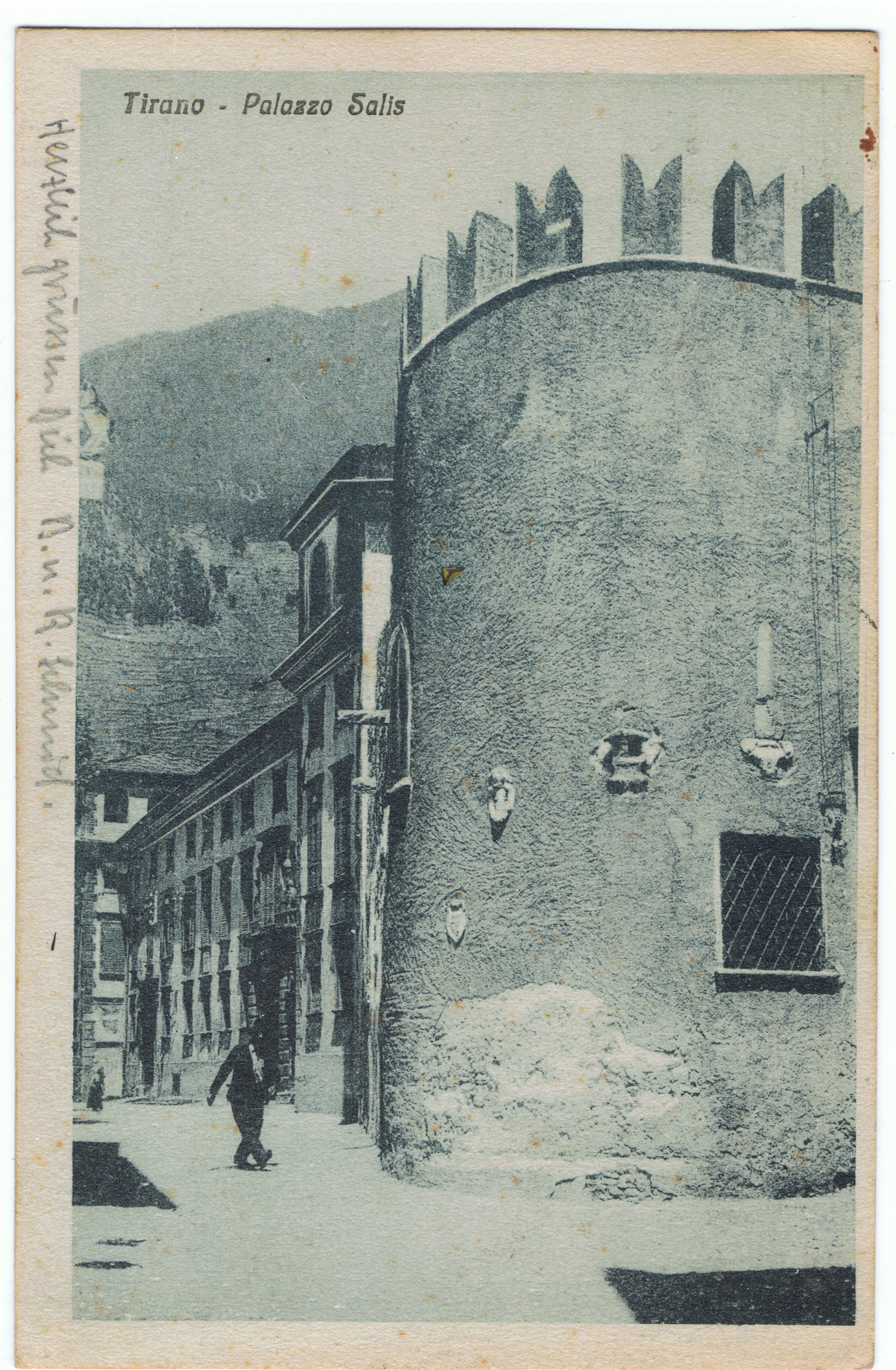 Scan (by me, R. de Salis, Rodolph (talk) 22:35, 12 January 2015 (UTC)) of a postcard of Palazzo Salis (now Sertoli-Salis), Tirano, Valtelline. Postmarked Lecco to Bern. Franked, 12 June, 1911.